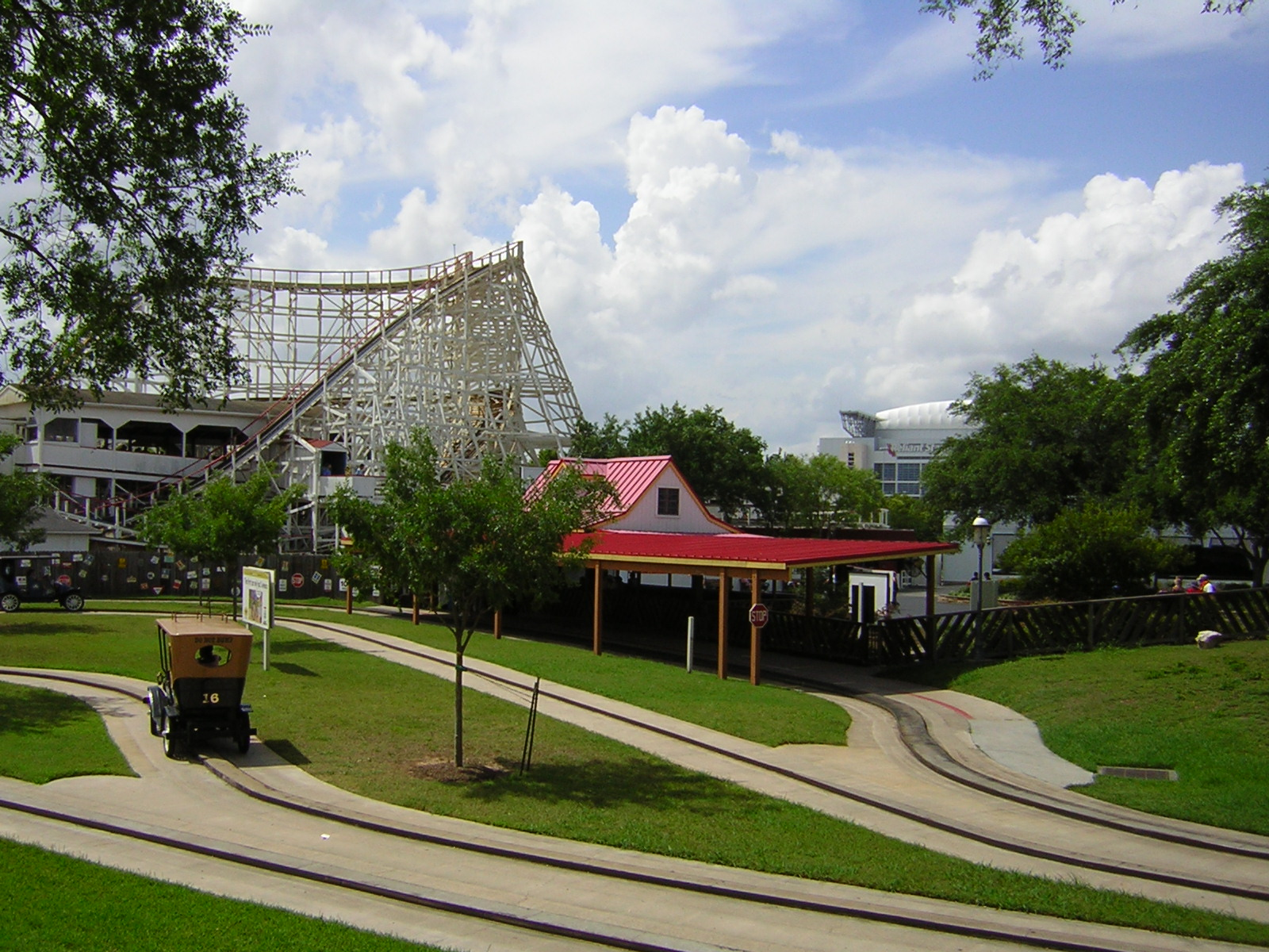 The park has a nice antique cars ride in the Coney Island themed area of the park.Atmosphere